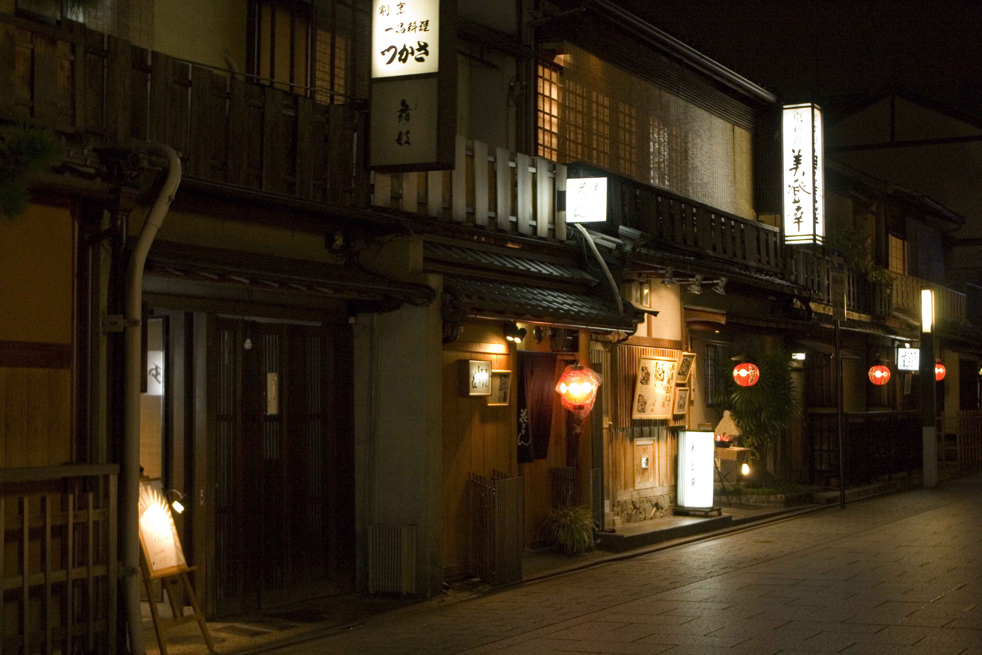 An evening in Gion Koubu